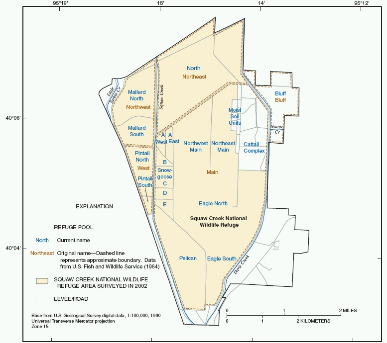 Squaw Creek National Wildlife Refuge map from 2002